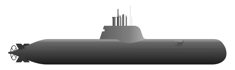 Drawing of Type 218SG RSN Invincible class submarine. Done on Inkscape based on photos of the submarine at sea and model posted by Minister of Defence Ng Eng Hen. If you are an expert in submarines and wish to insert a detail I had omitted or can suggest any improvements, please do leave a message on my Talkpage on Wikipedia.